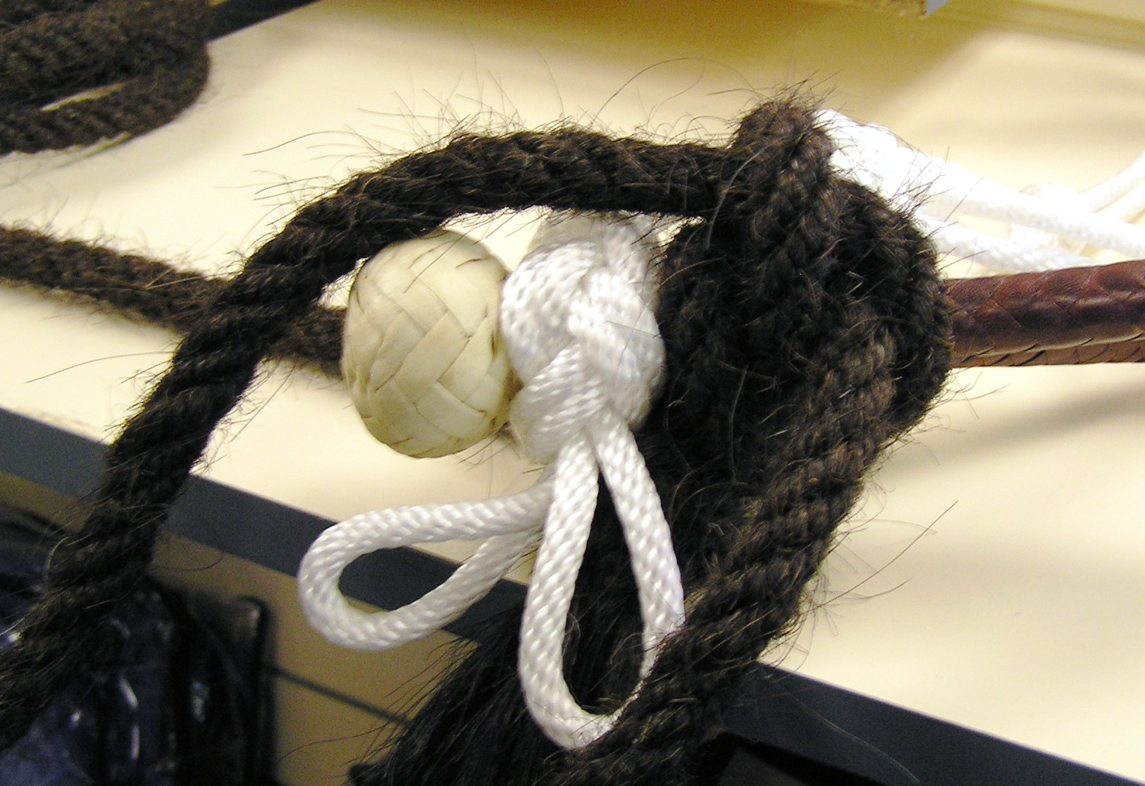 Detail of a horsehair mecate (brown rope) tied to a bosal hackamore that also has a fiador (white rope), showing knots used